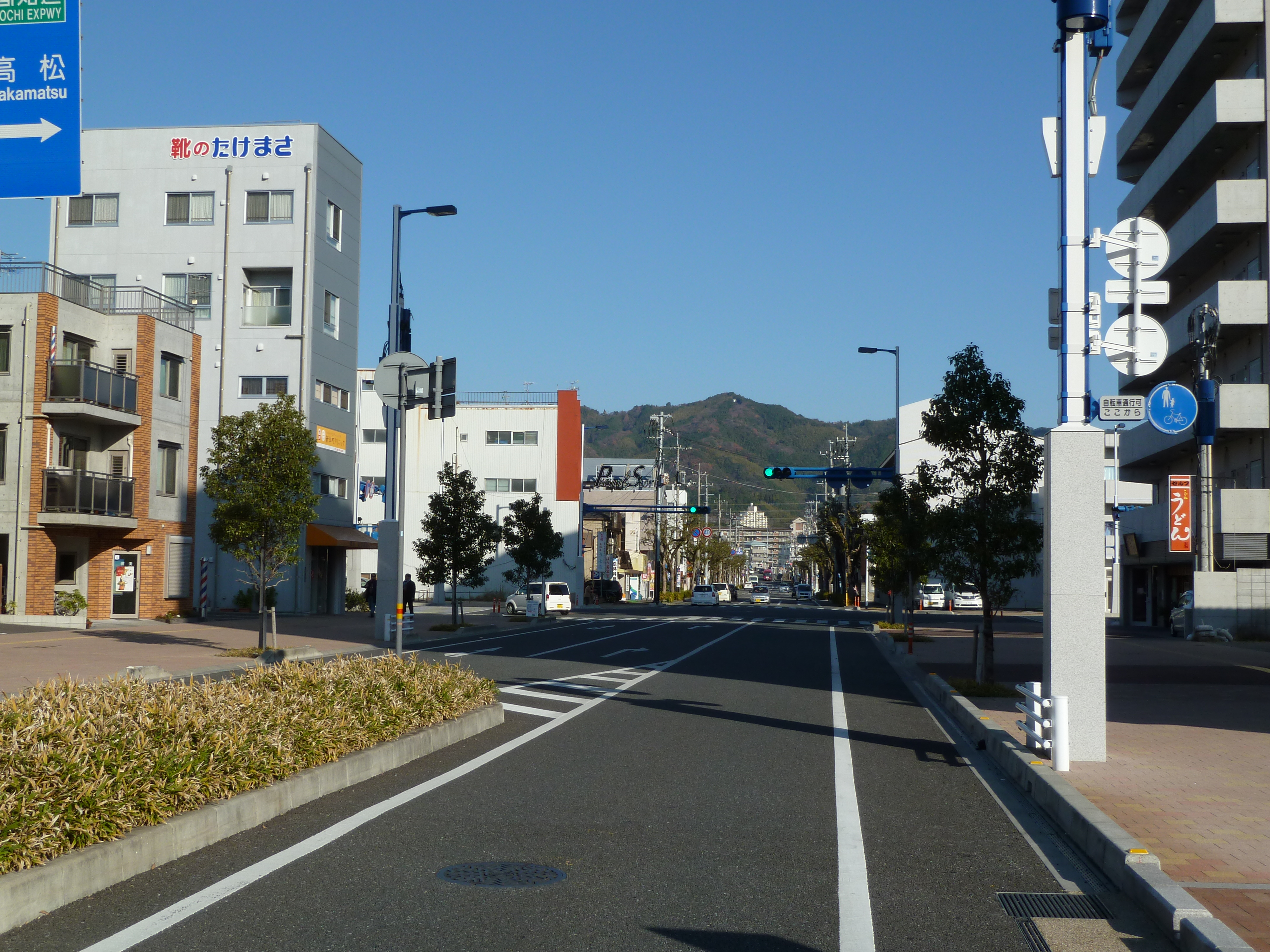 北口の駅前通り